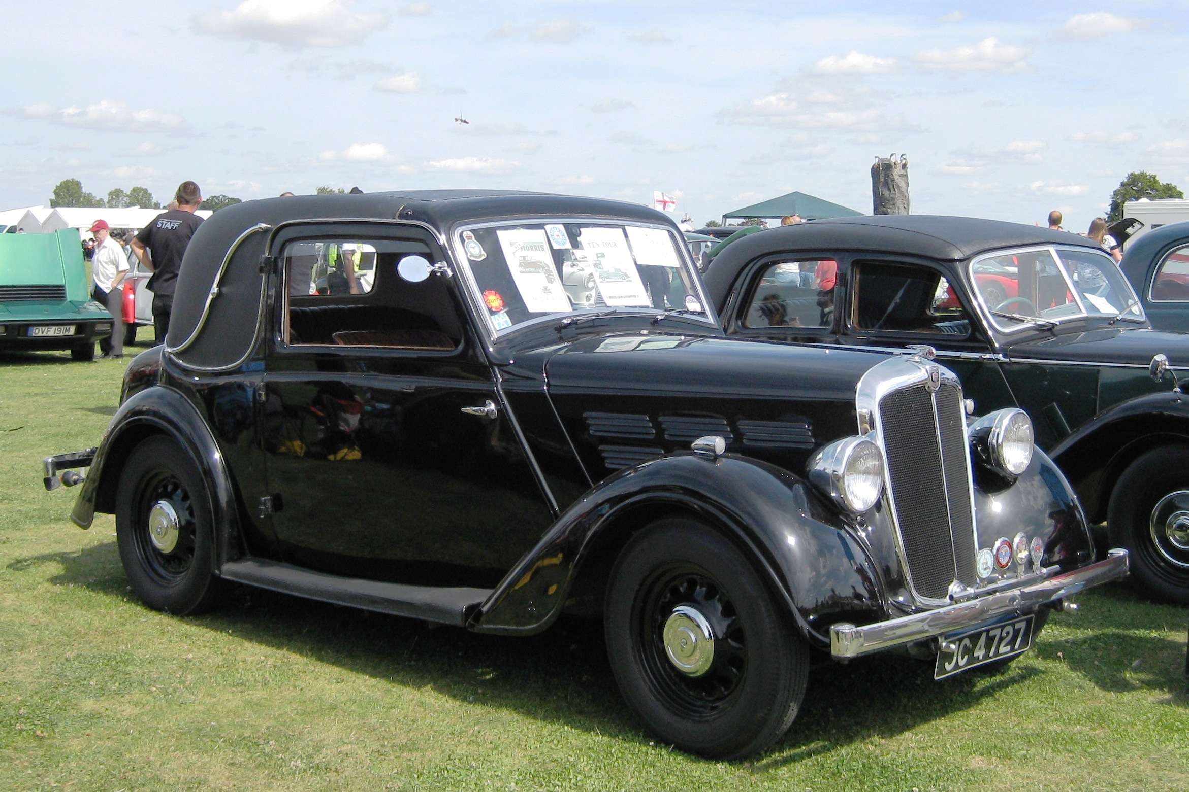 Morris Ten Coupe first registered June 1937